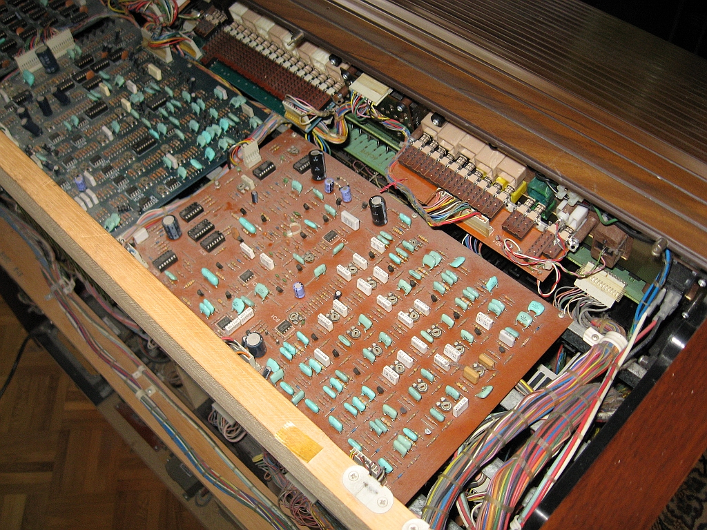 Farfisa Pergamon "technical view 4"